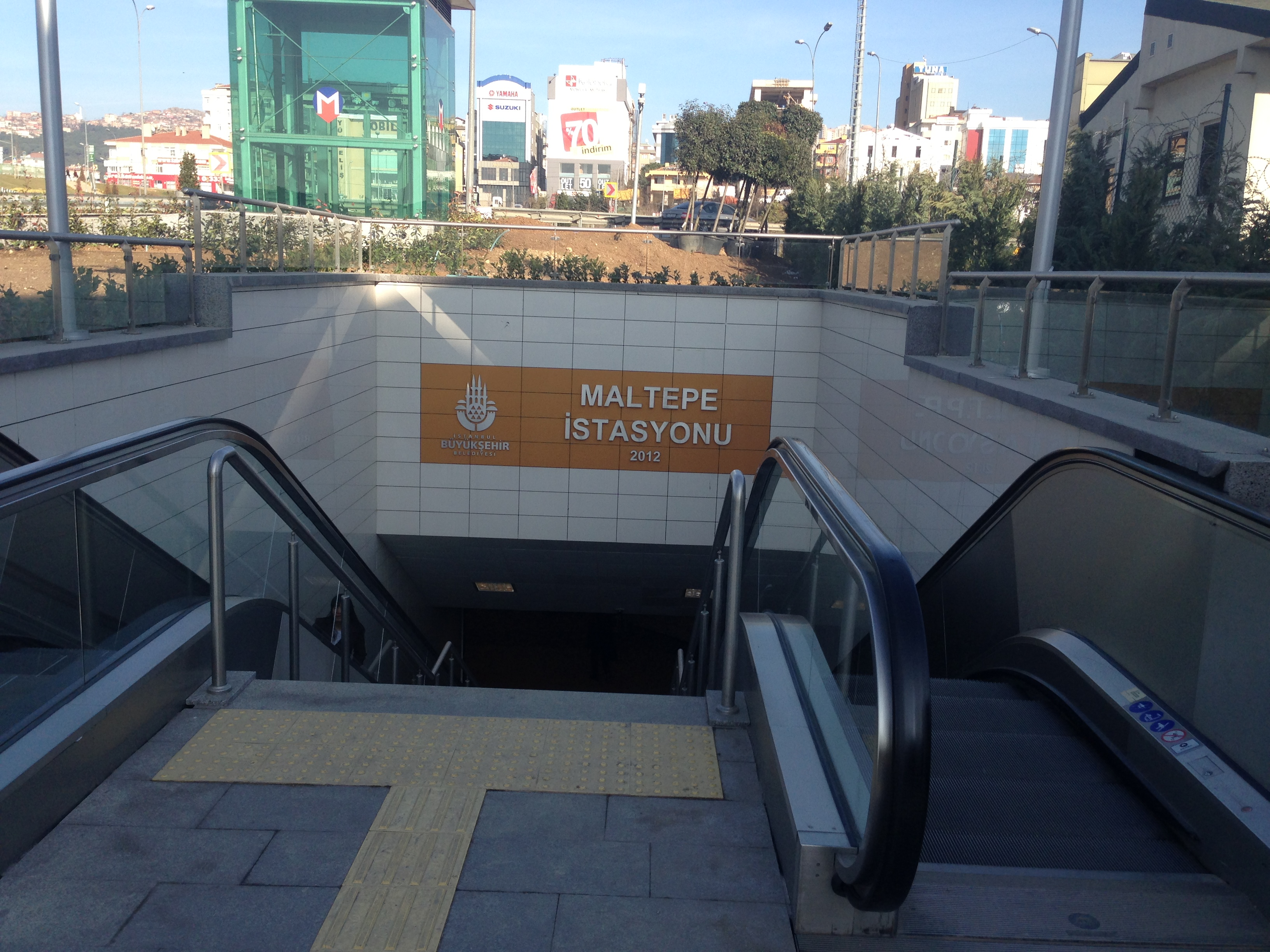 Maltepe metro station entrance.